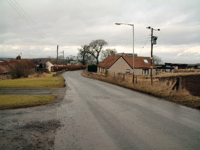 Collace village. Viewed from the south, coming down from Dunsinane Hill direction